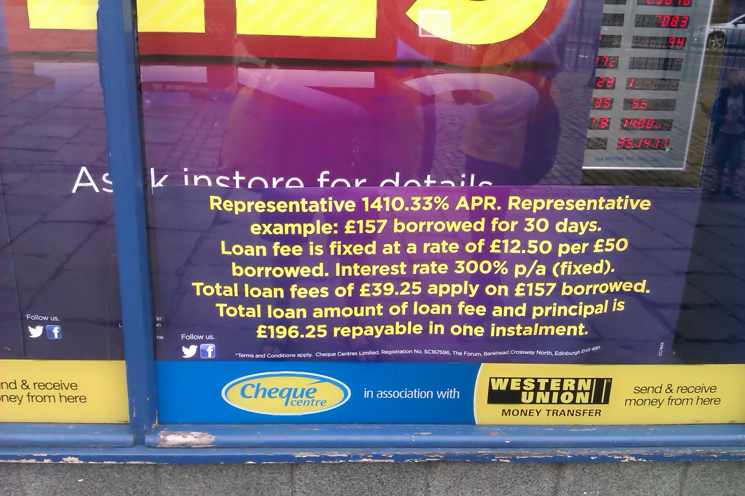 Shop window in Aberdeen August 2012 APR of 1410.33%